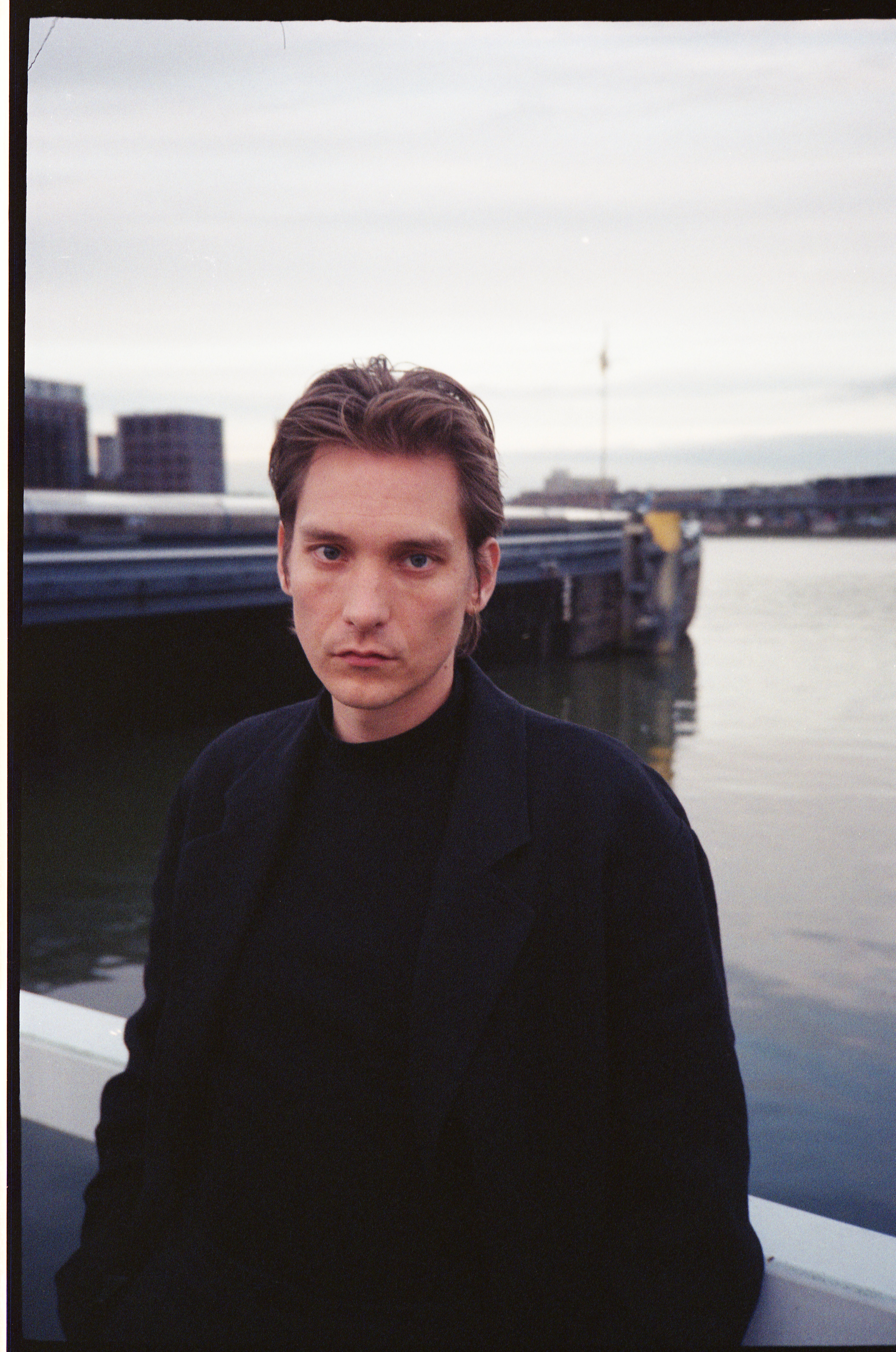 Thomas Azier (2020) by Obi Blanche